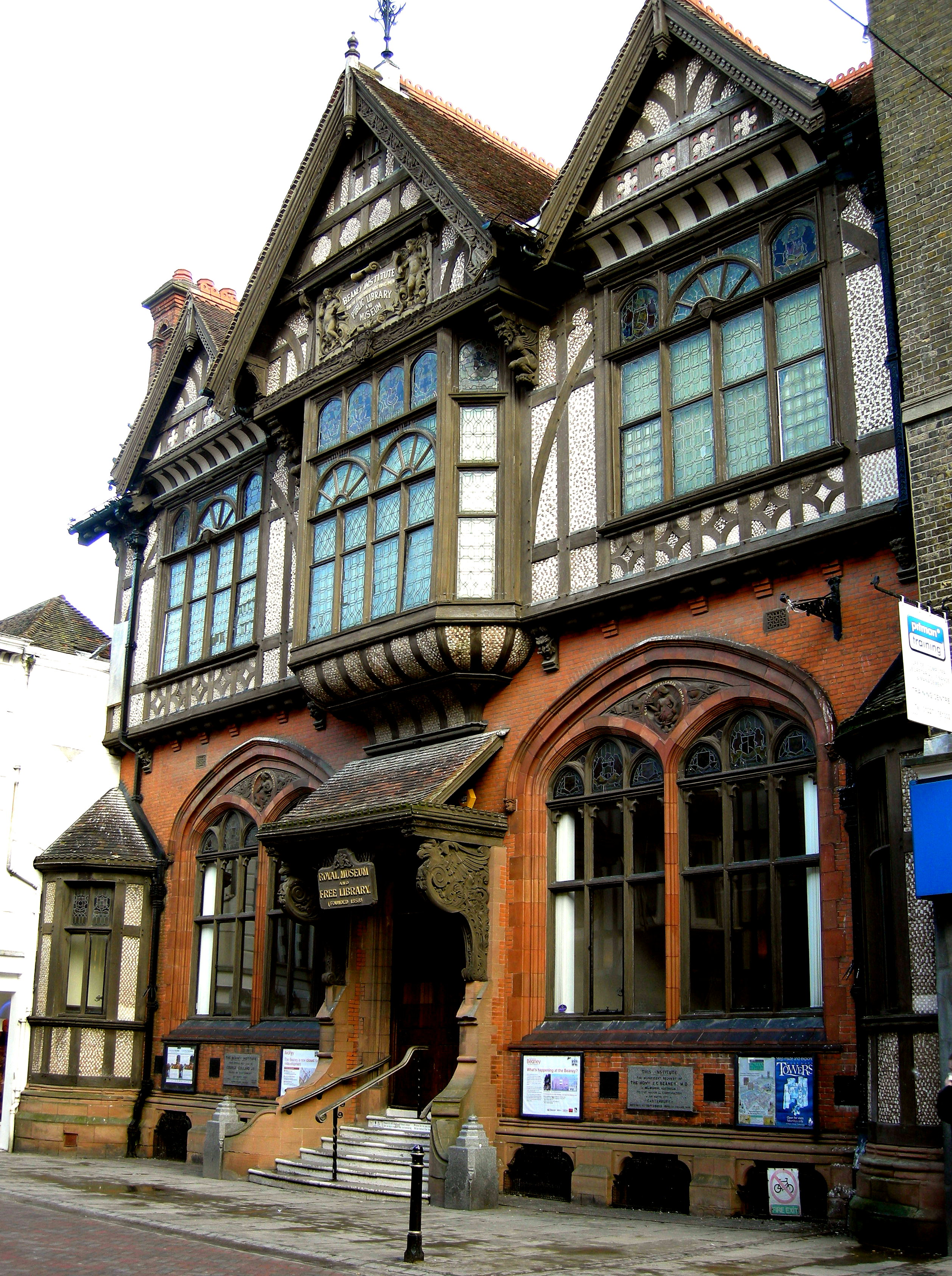 Royal Museum and Free Library in Canterbury, Kent, England. Known as the Beaney Institute.